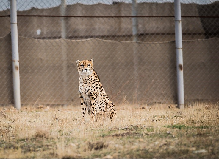 Kooshki, male Asiatic cheetah in Iran.